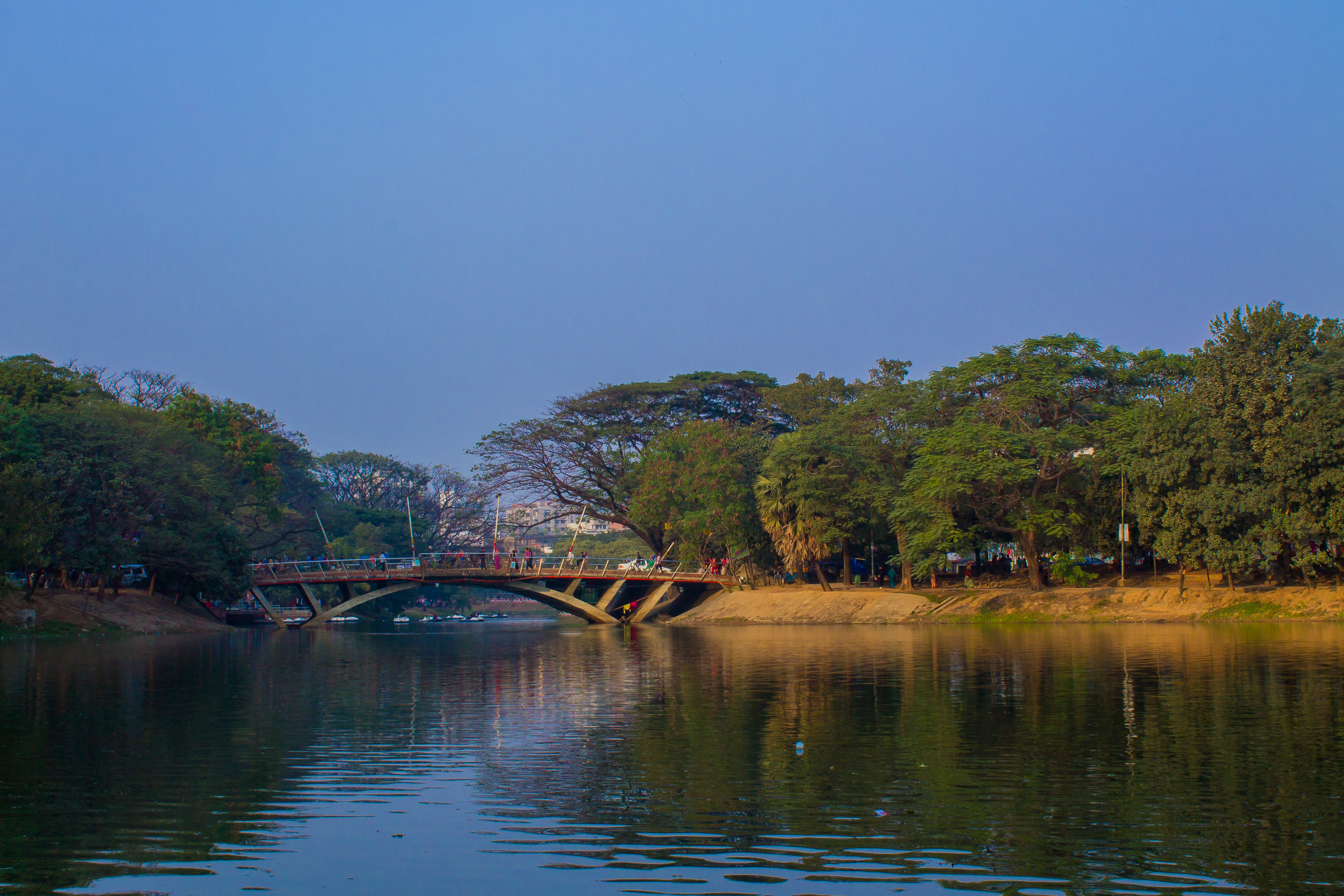 Bridge of Dhanmondi lake